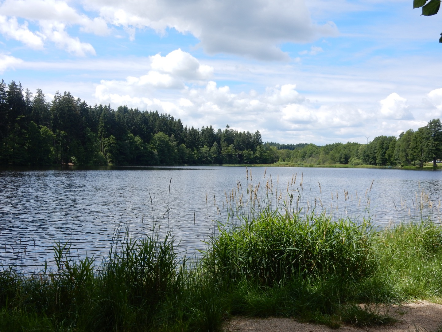 Lake Branka in Czech Republic